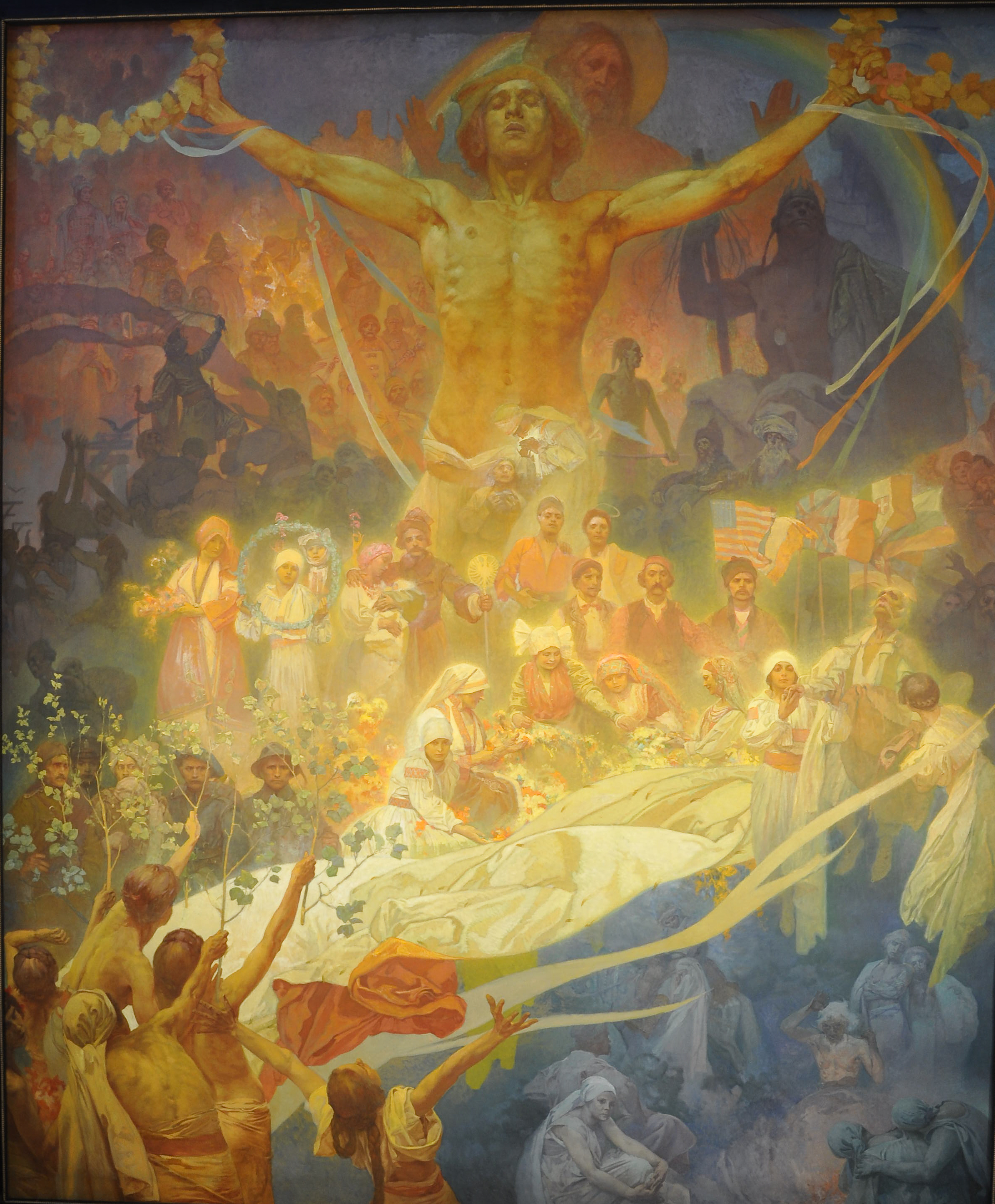 The Apotheosis of the Slaves